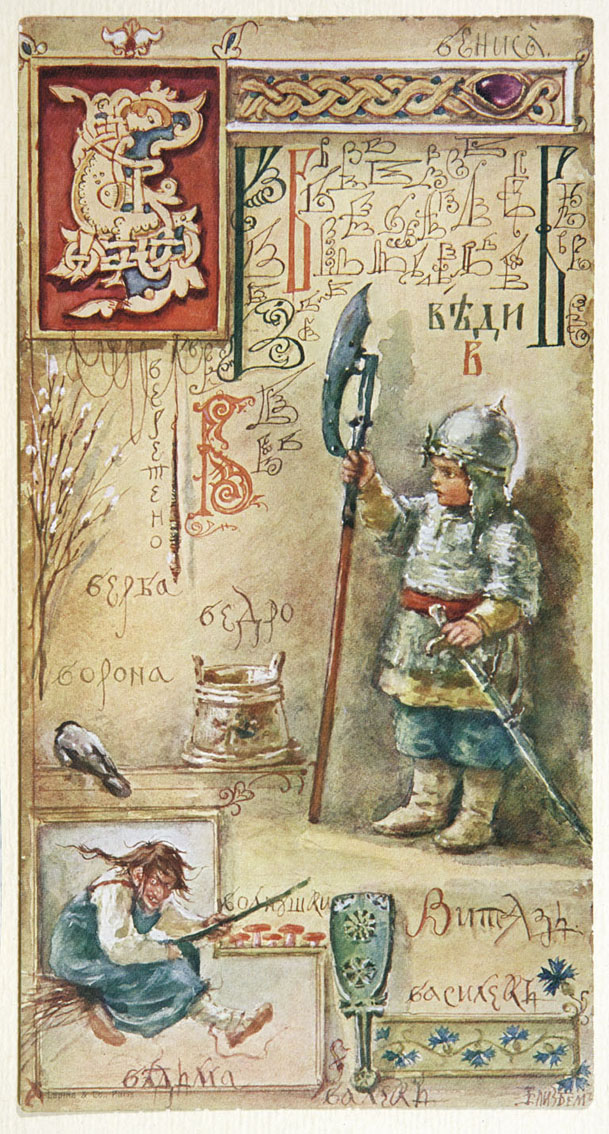 Cyrillic letter Ve from abc book